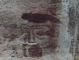 Cae Hiew, Celles Resources - took with my own camera on the actual location (Tambun Cave of Ipoh).